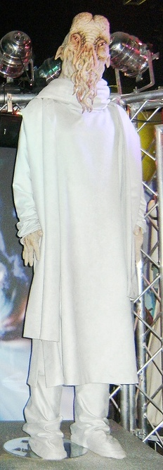 The Ood at the Doctor Who Exhibition, Cardiff, Wales.